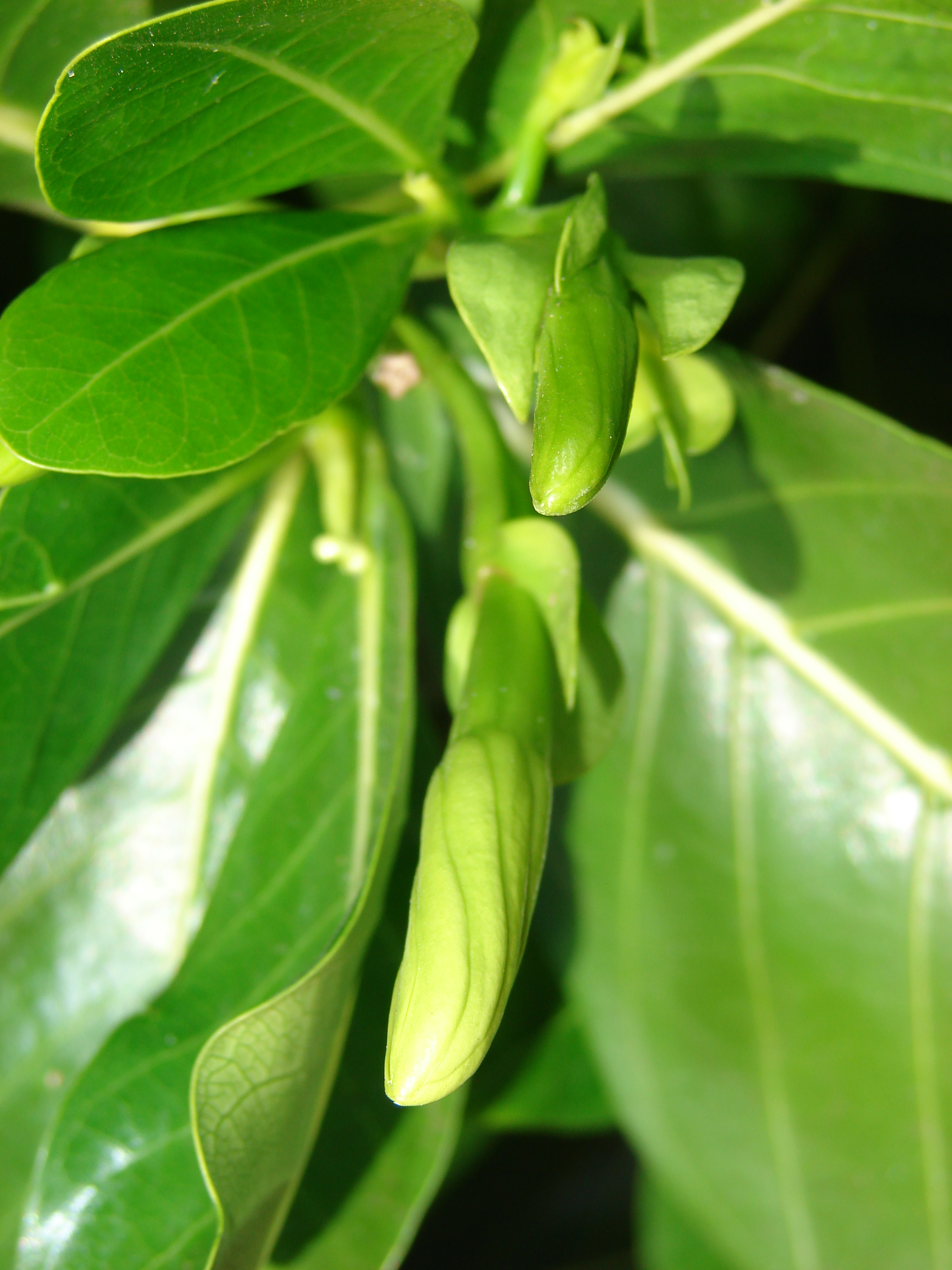 Gardenia taitensis (flower bud). Location: Maui, Lahaina Aquatic Center